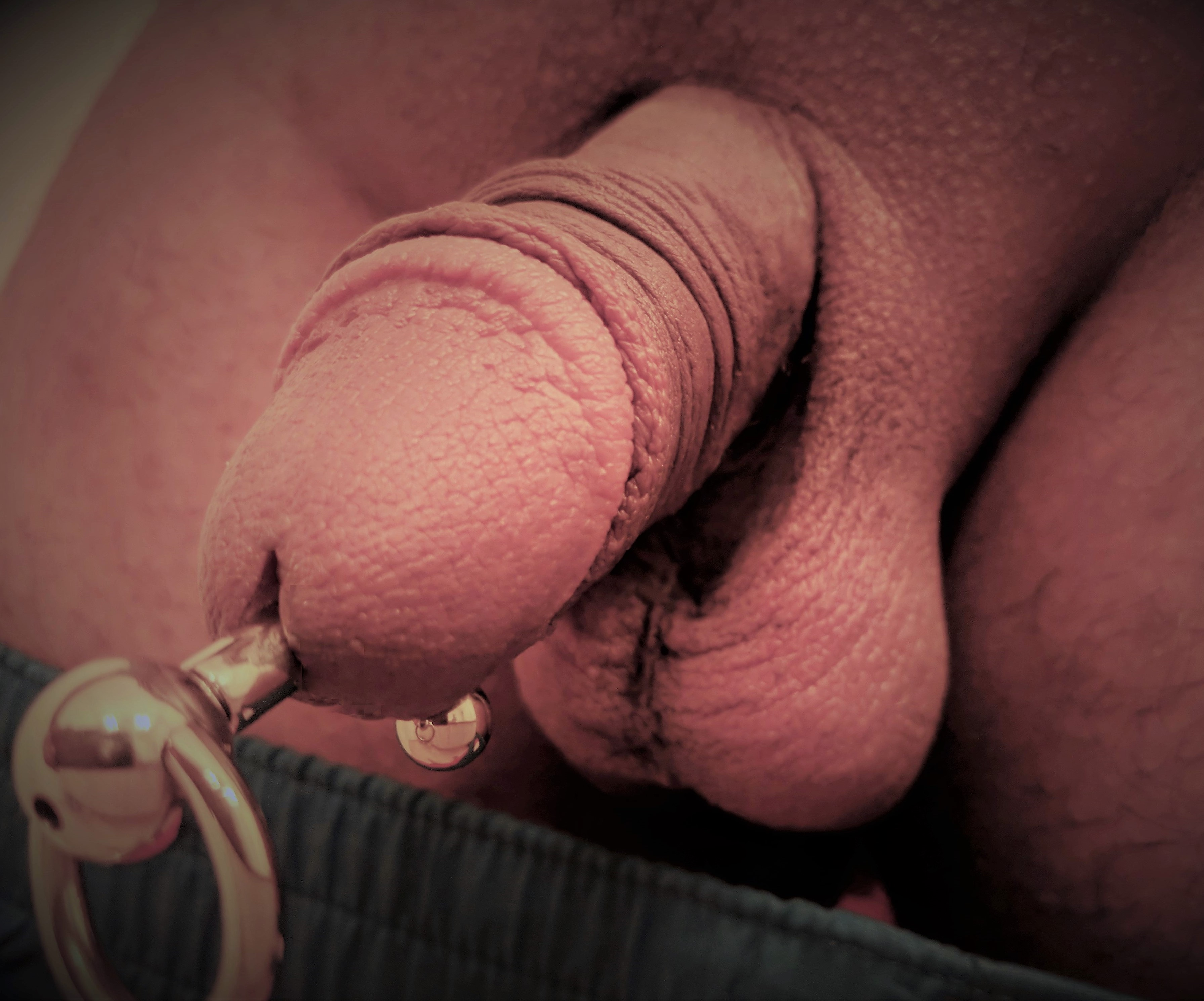 An example of a prince's wand being worn on an uncircumcised penis.